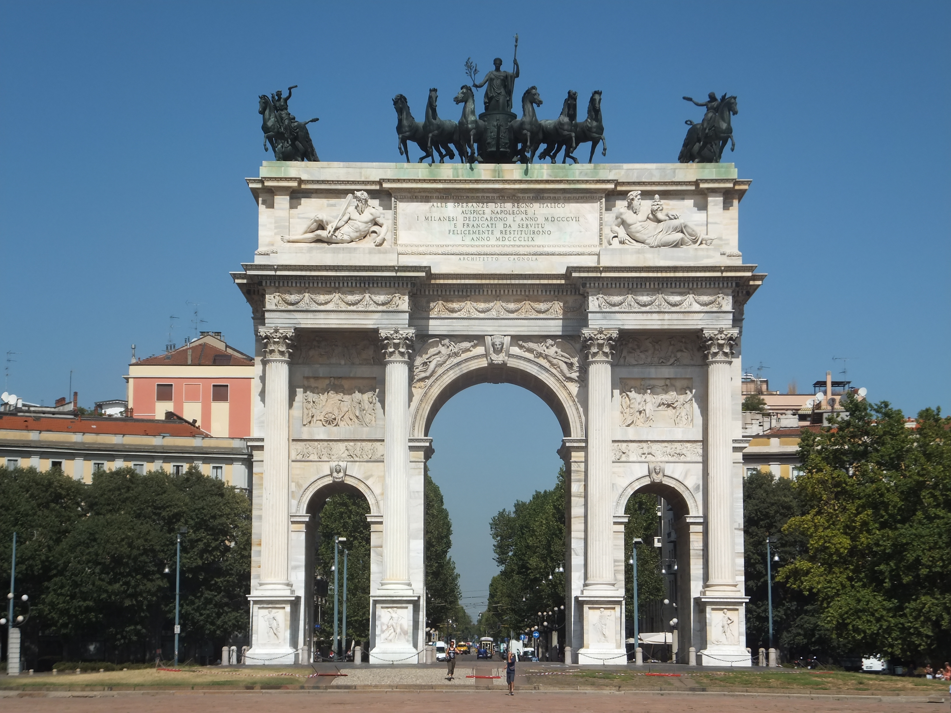 Triumphal arch at the end of Park Sempione